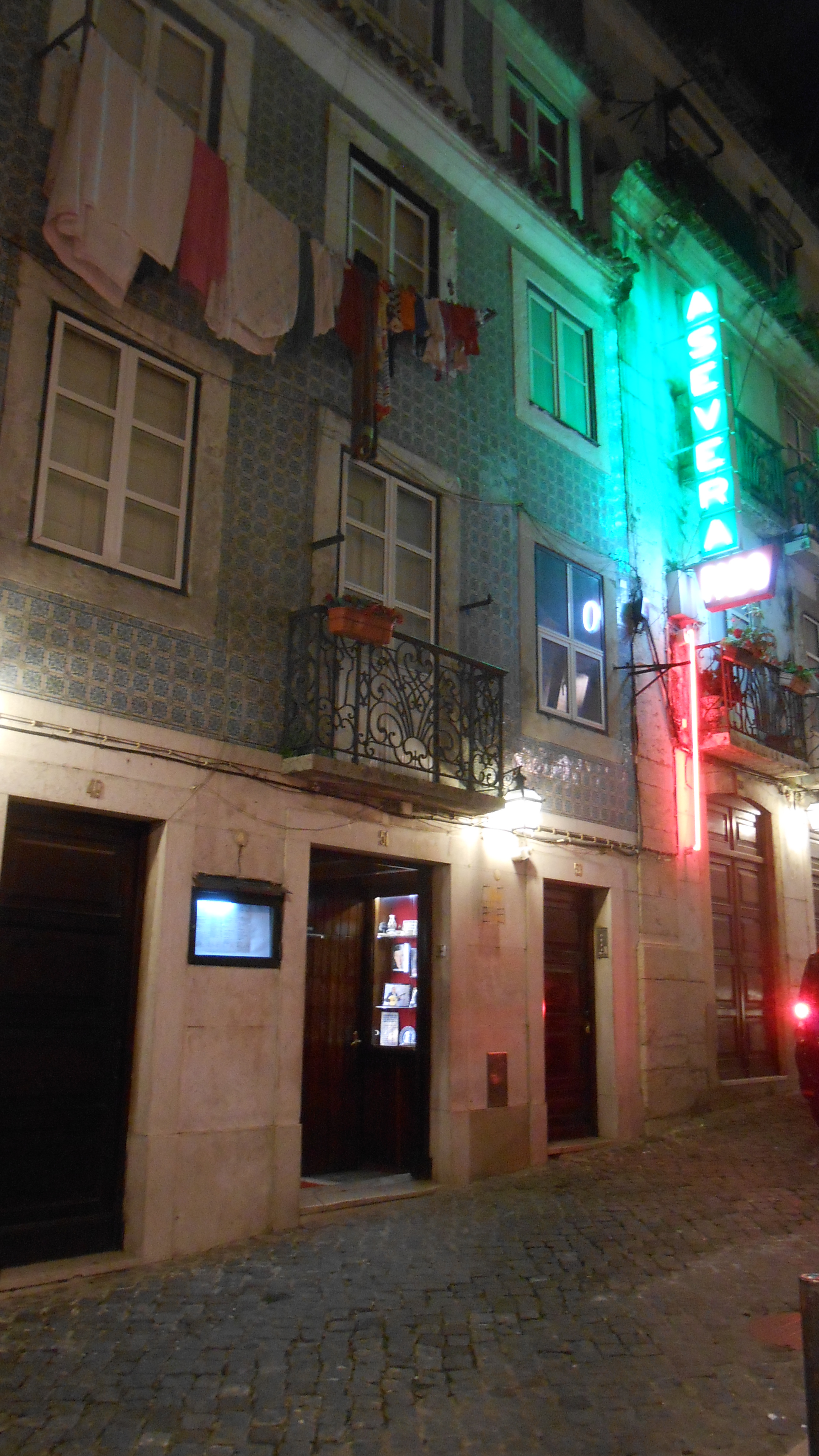 The traditional fado house A Severa in the Bairro Alto quarter in Lisbon.